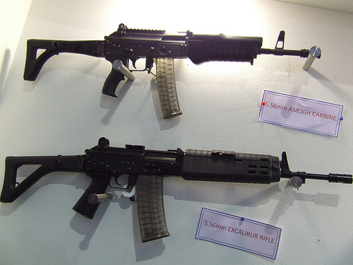 one assault rifle and one 9mm carbine